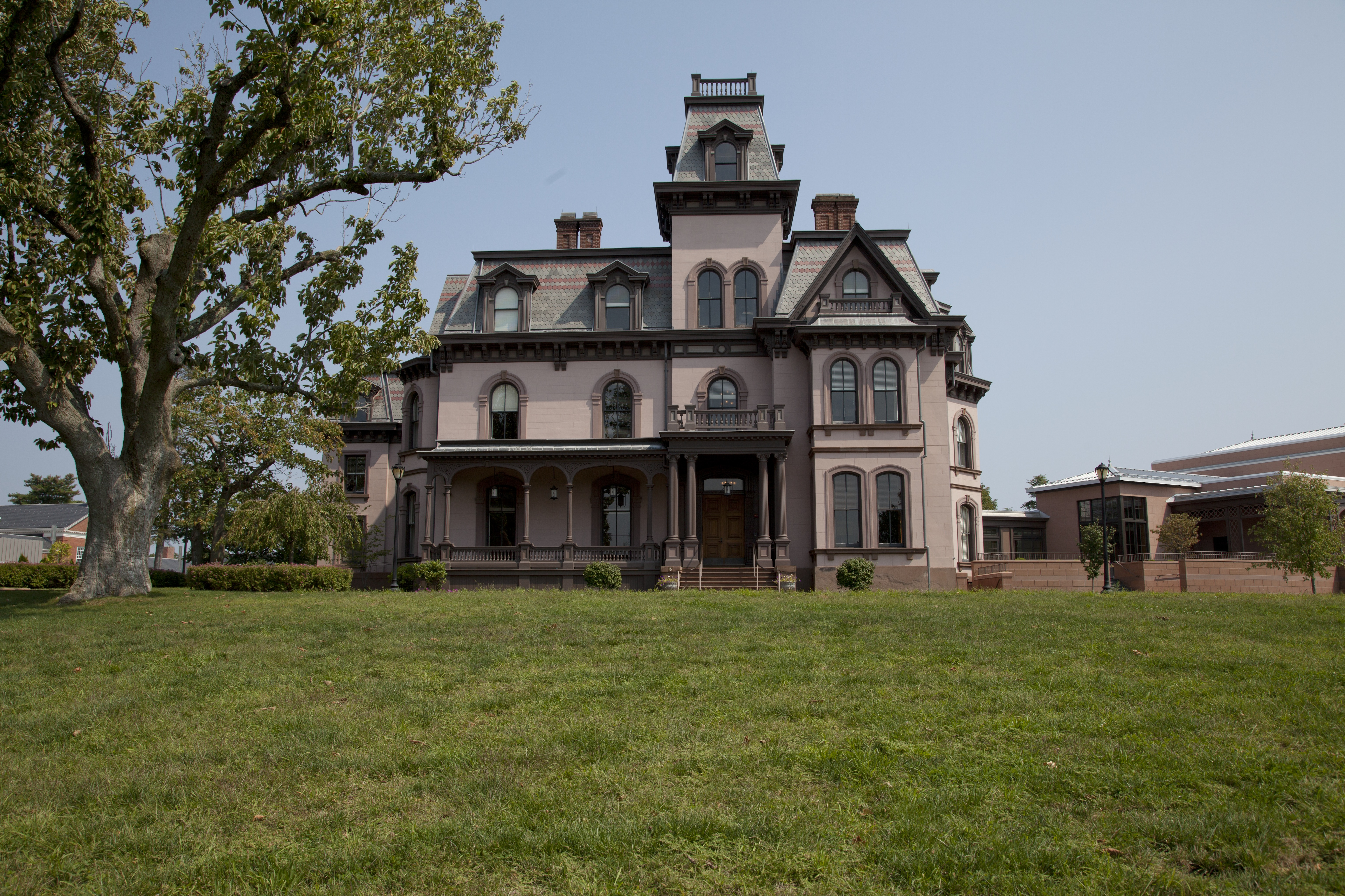 Betts House from Prospect Street, Yale University, New Haven, CT